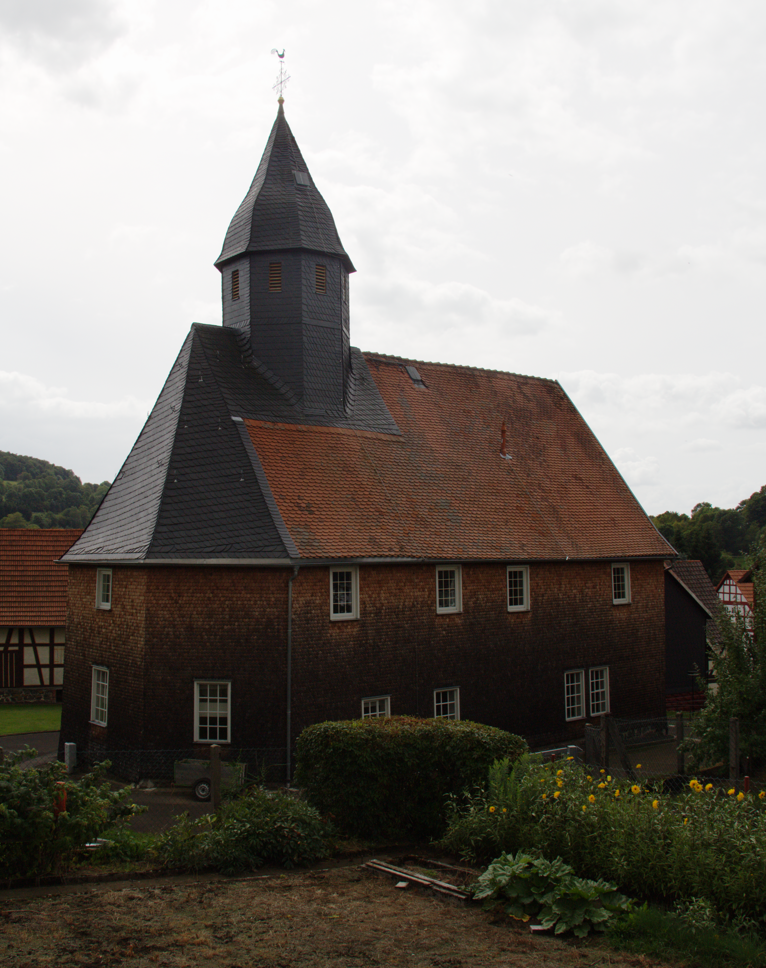 Protestant church in Schotten Rudingshain Schulstrasse, Hesse, Germany